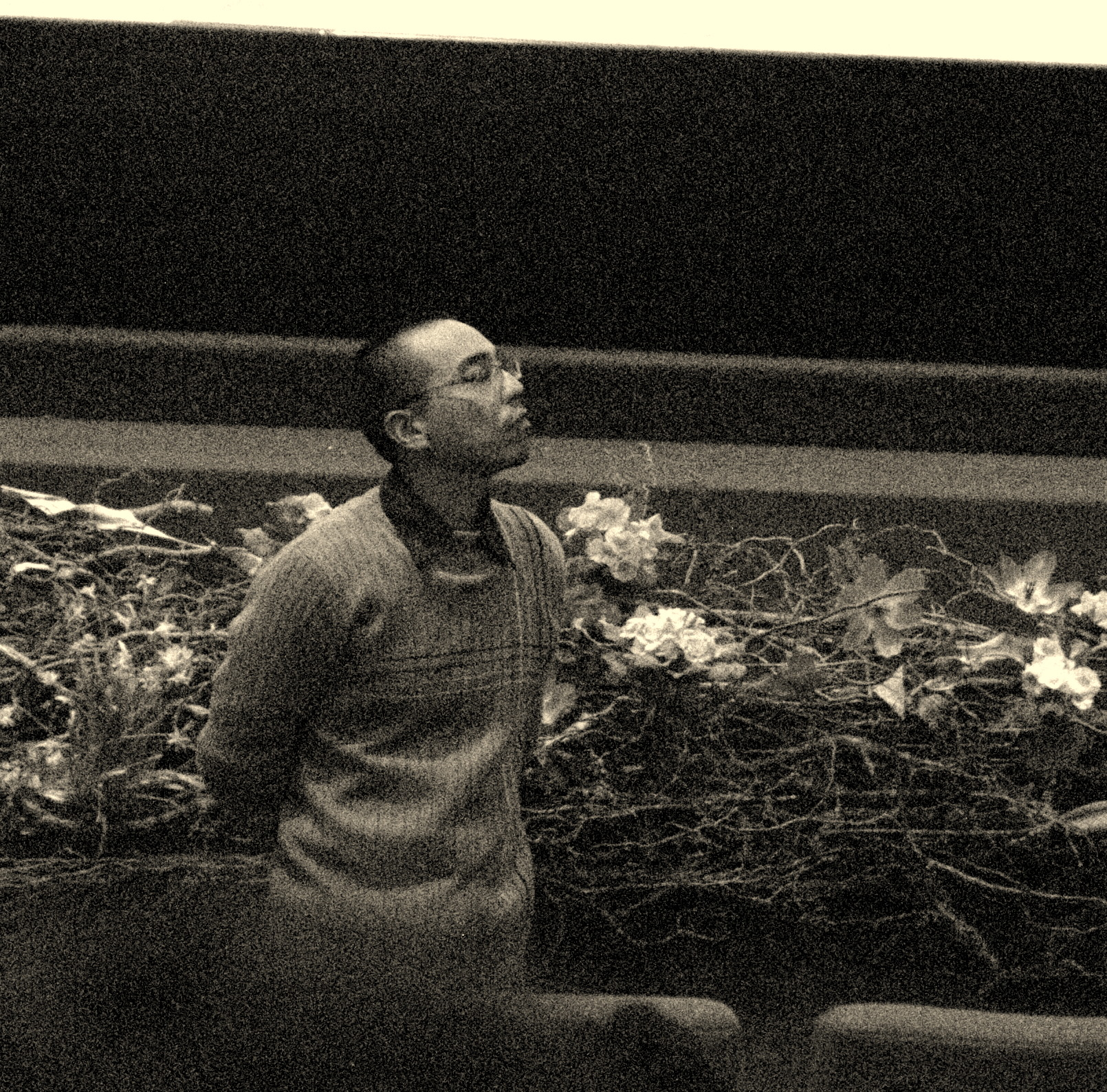 Thai independent film director, screenwriter, and film producer Apichatpong Weerasethakul at the Fribourg International Film Festival (Switzerland).